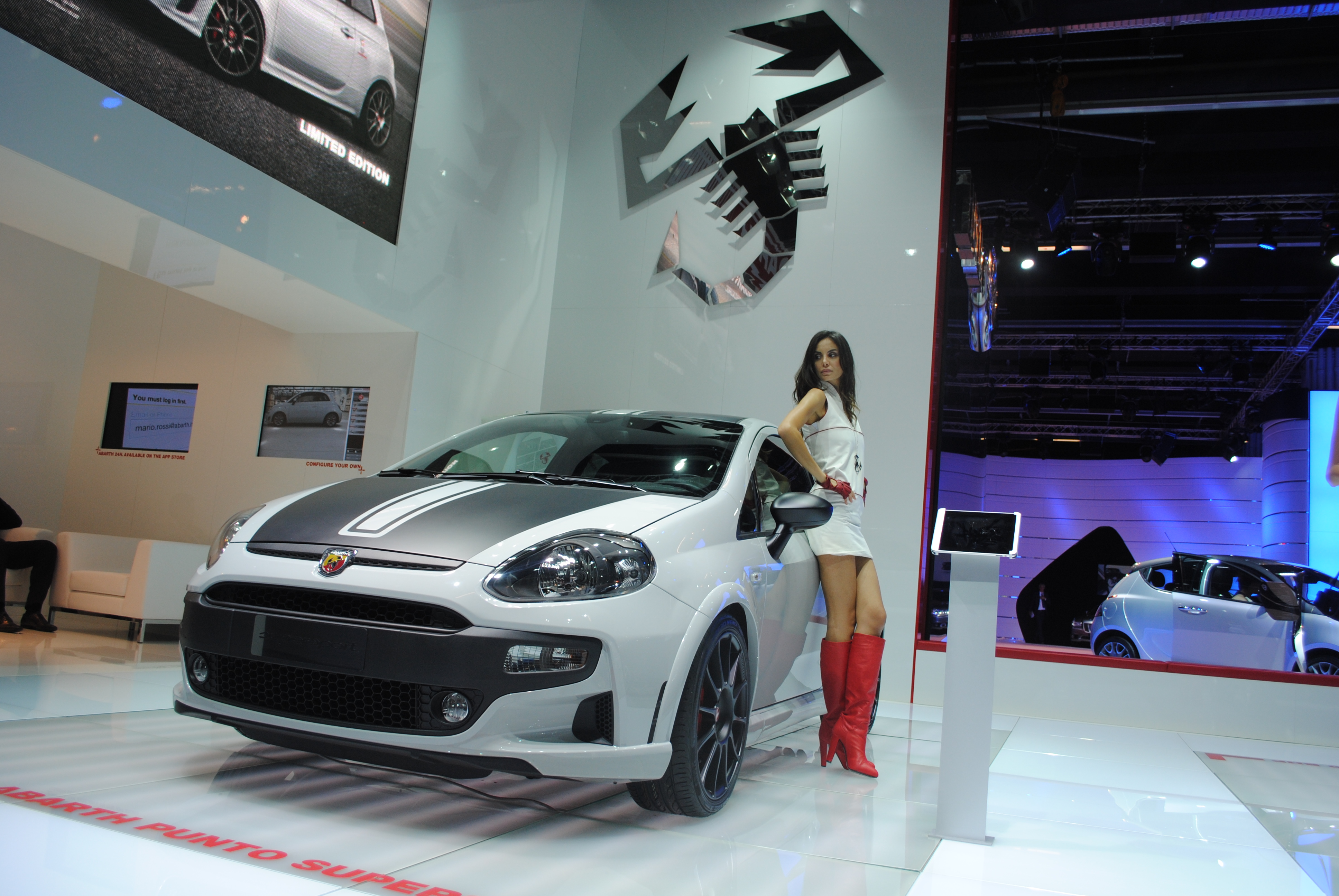 More photos and info